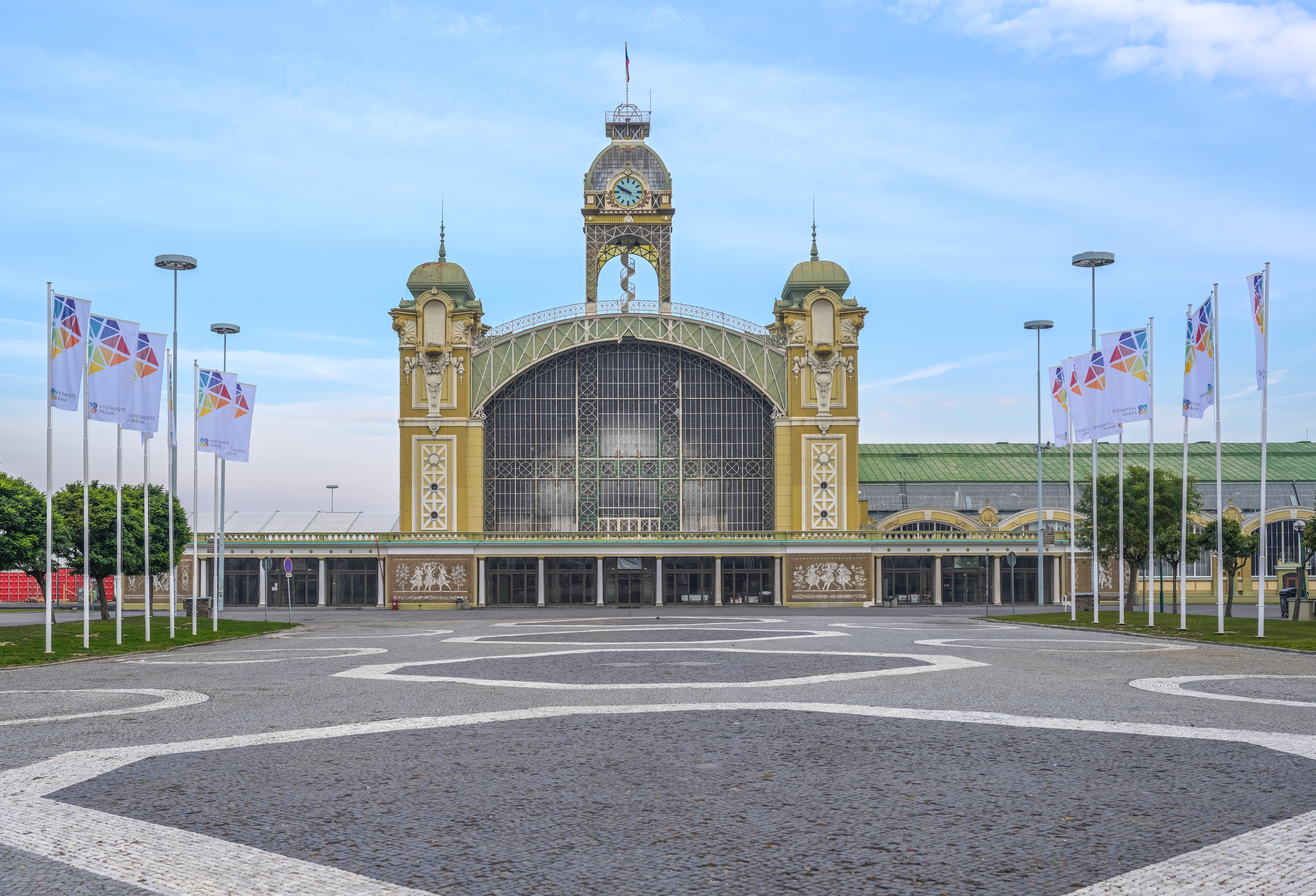 Prague, Czech Republic, October 2018